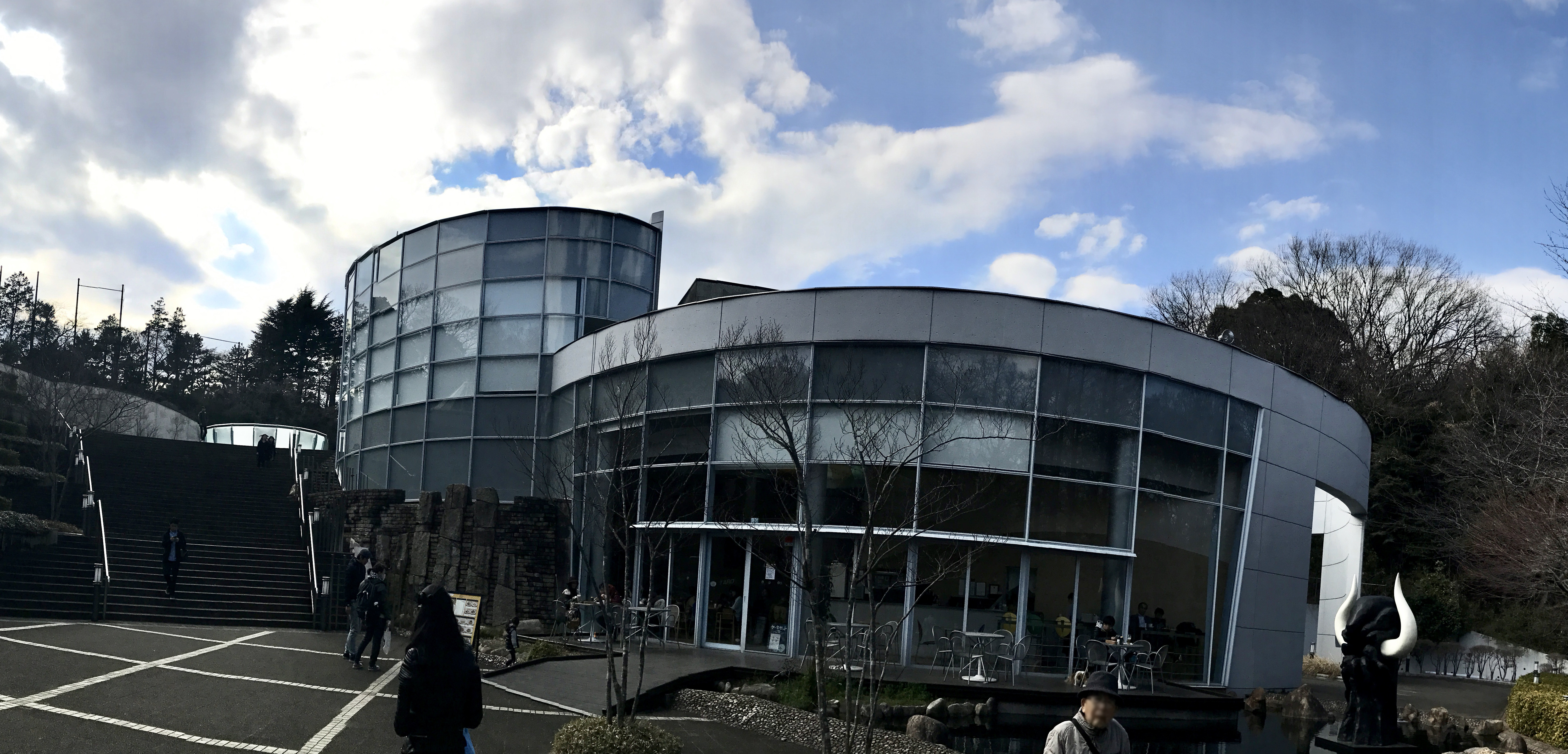 Taro Okamoto Museum of Art (thanks to Y's lens!) (岡本太郎美術館 Okamoto Tarō Bijutsukan)